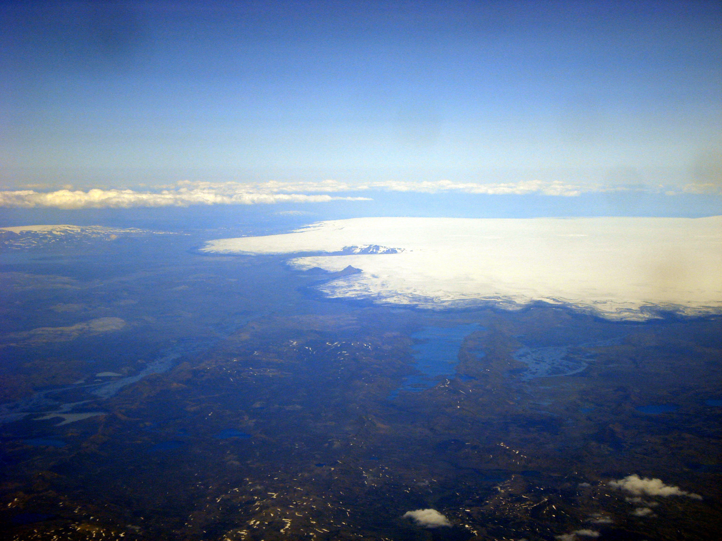 West-Vatnajökull, glacier in Iceland